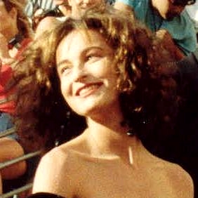 Jennifer Grey at the Academy Awards